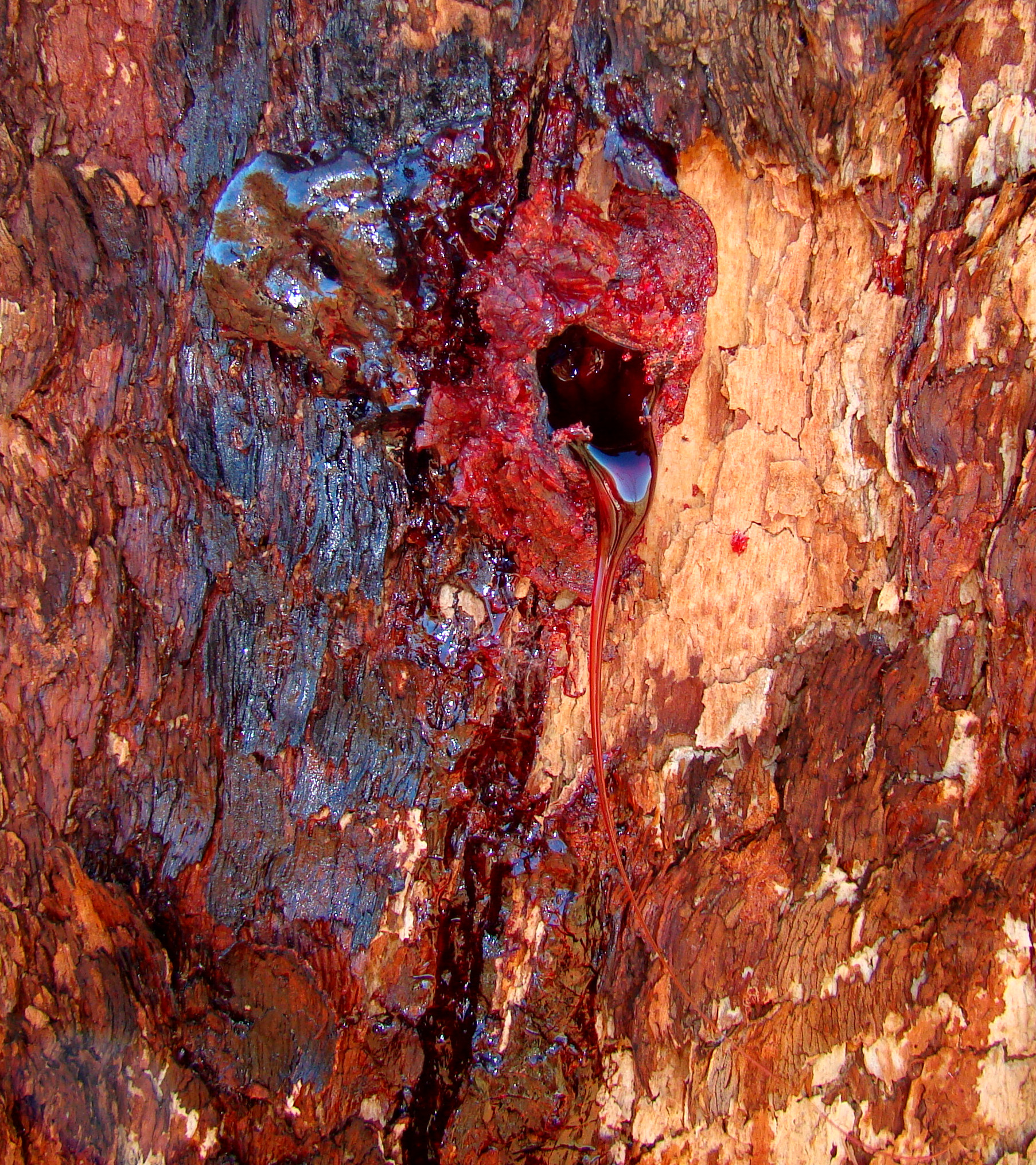 Close-up of a bleeding bloodwood tree, corymbia terminalis. The "blood" sap will soon "coagulate" and close the "wound".